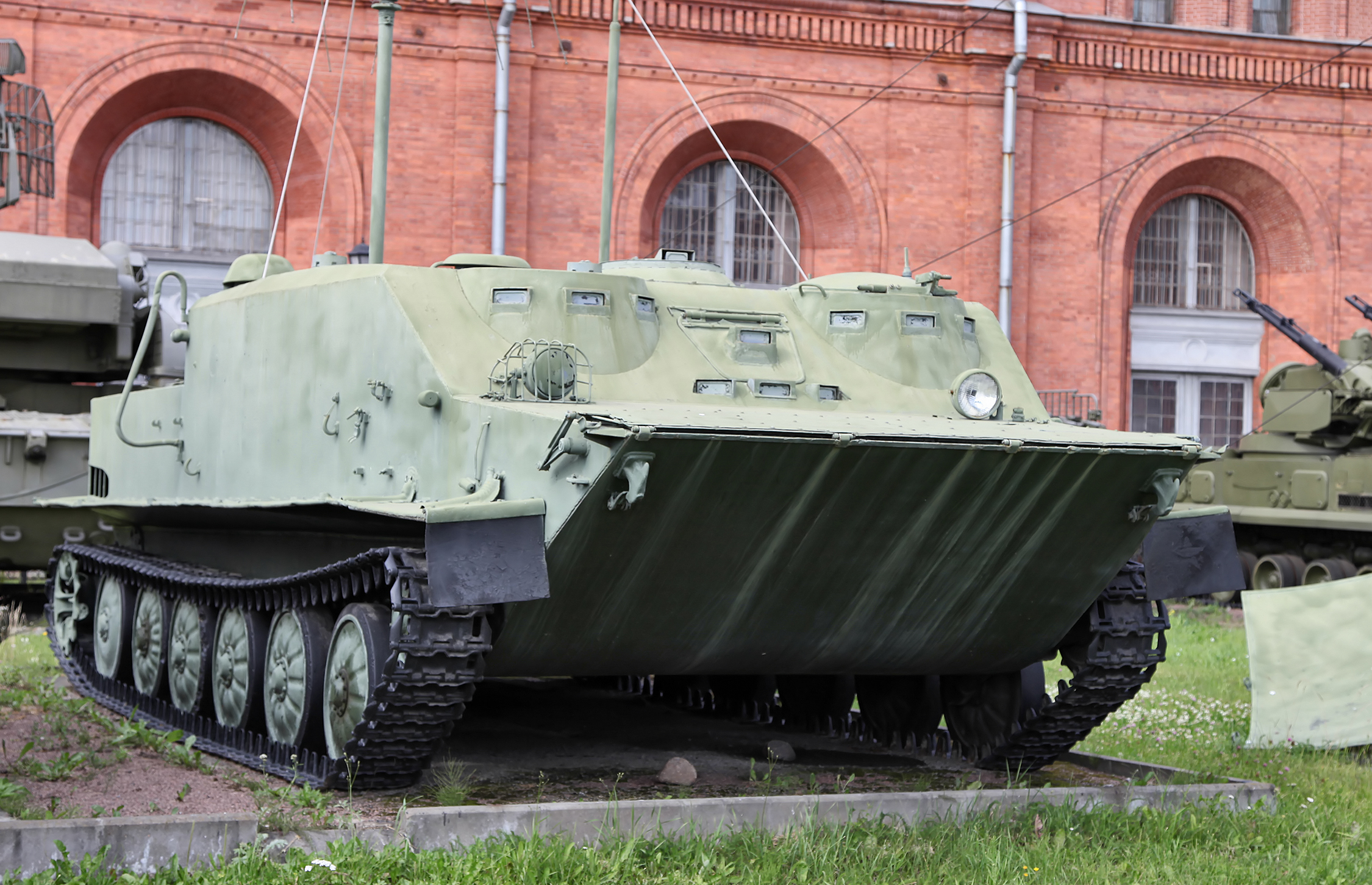 BTR-50PU